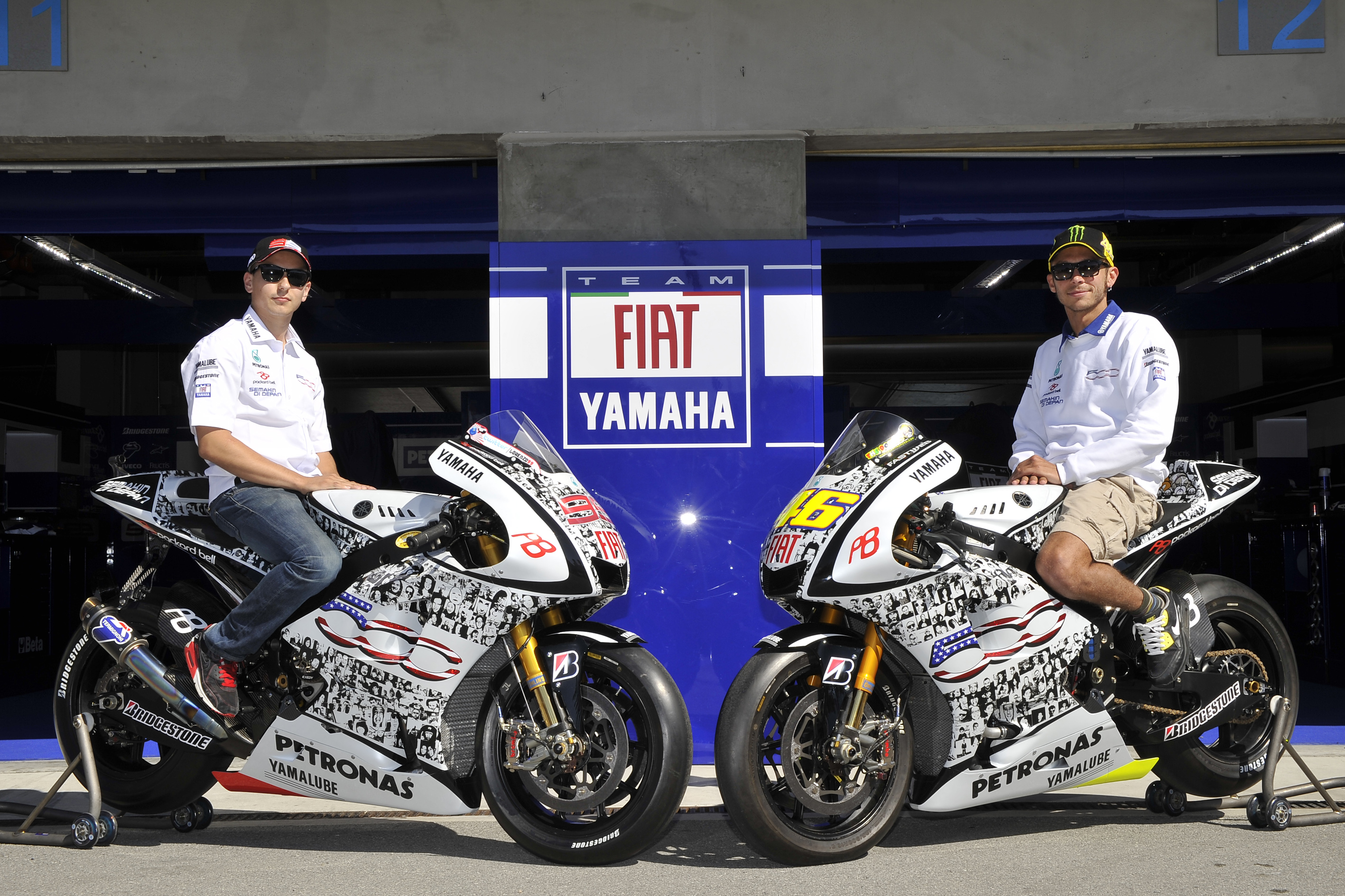 Fiat Yamaha Laguna Seca 2010